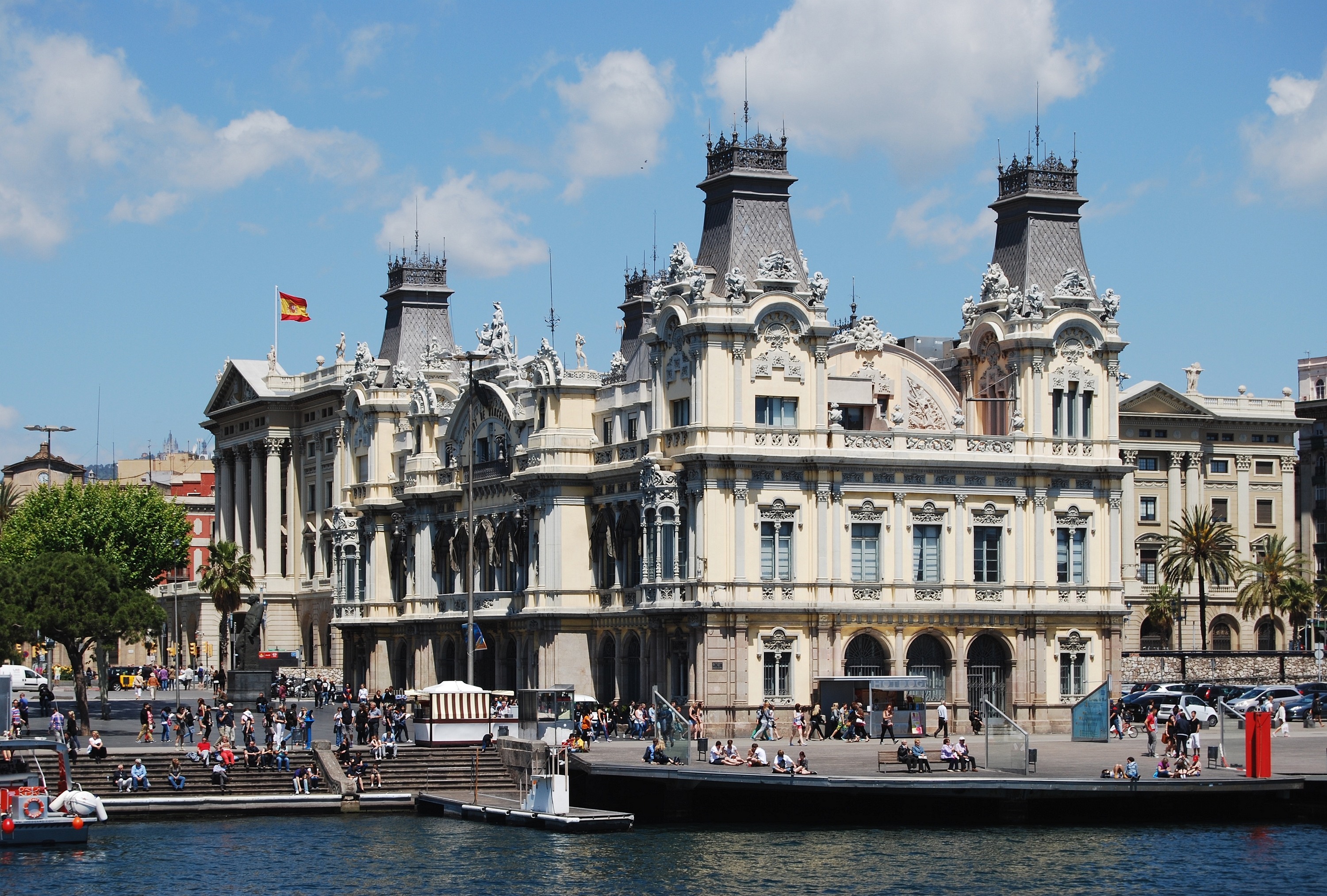 Building with the head office of the Port Authority of Barcelona.